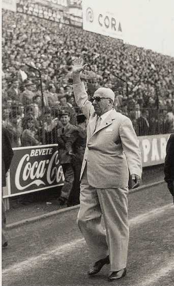 Achille Lauro, former mayor of Naples and president of S.S.C. Napoli